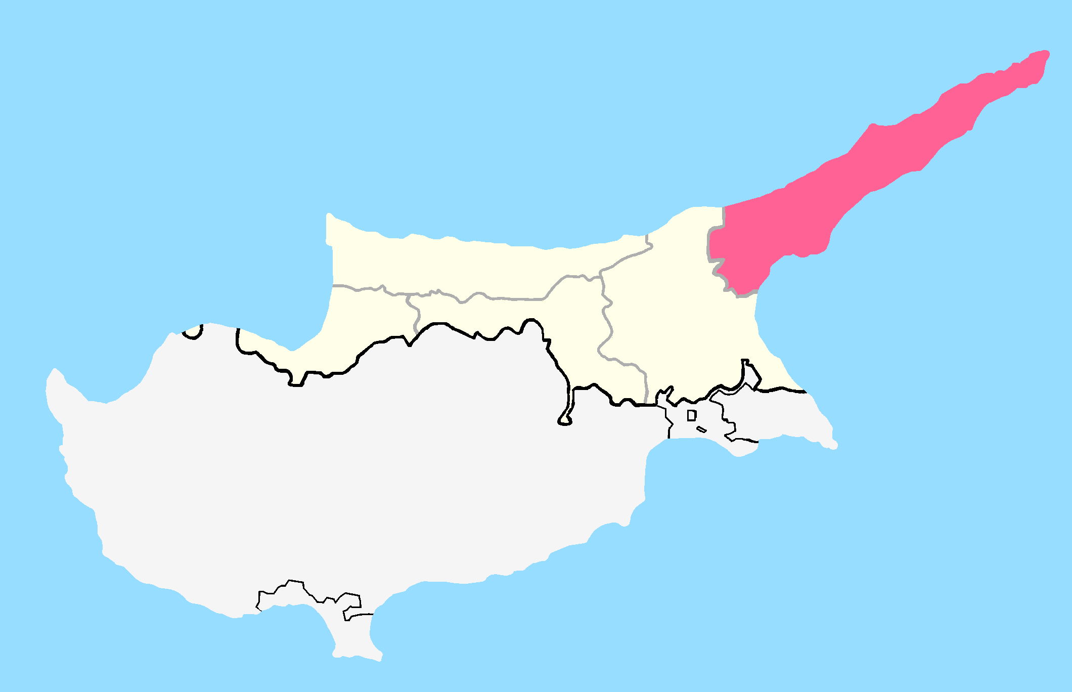 İskele District Map